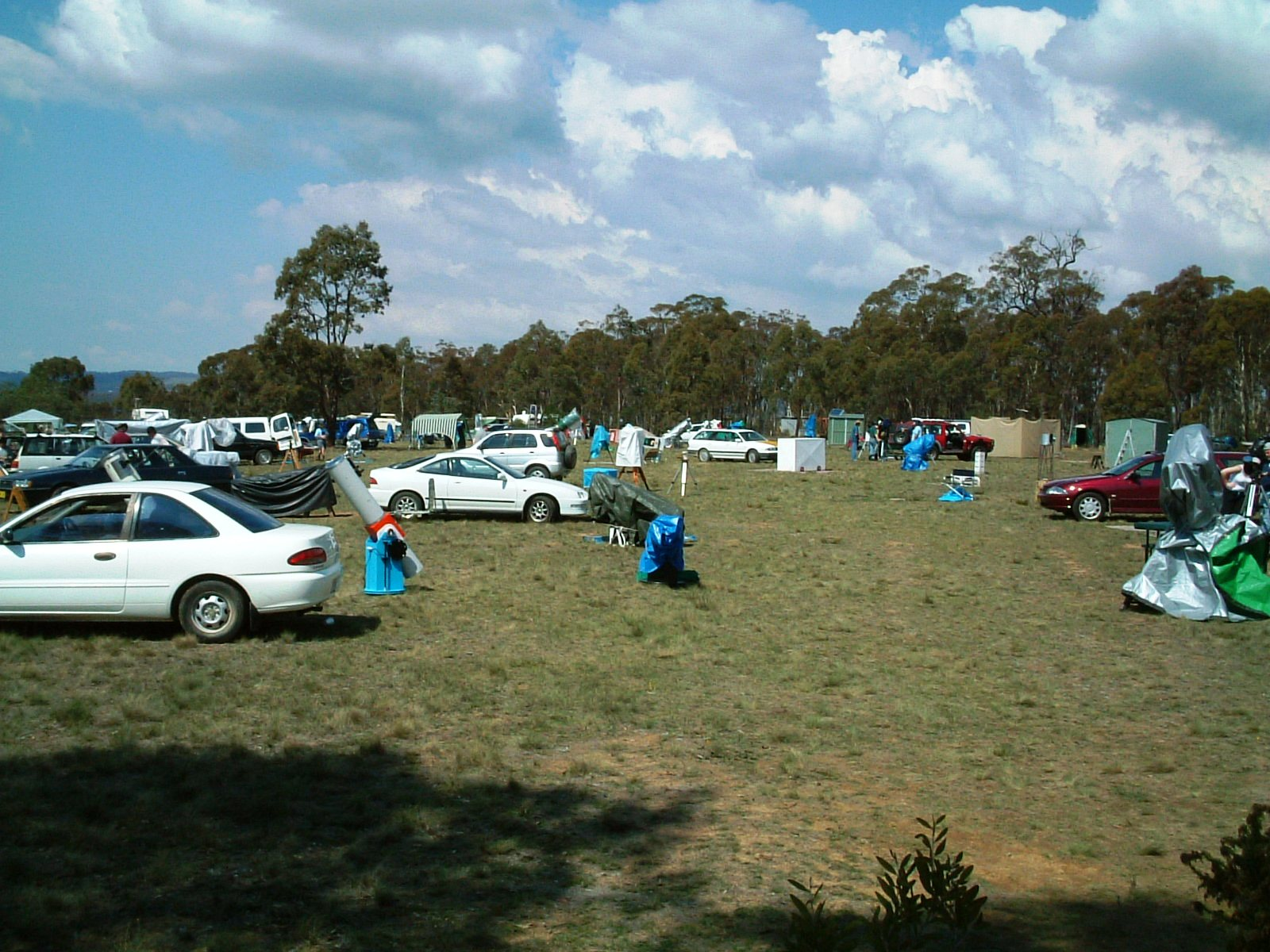 Sky-gazers at the 2003 South Pacific Star Party setting up their telescopes on the observing field.